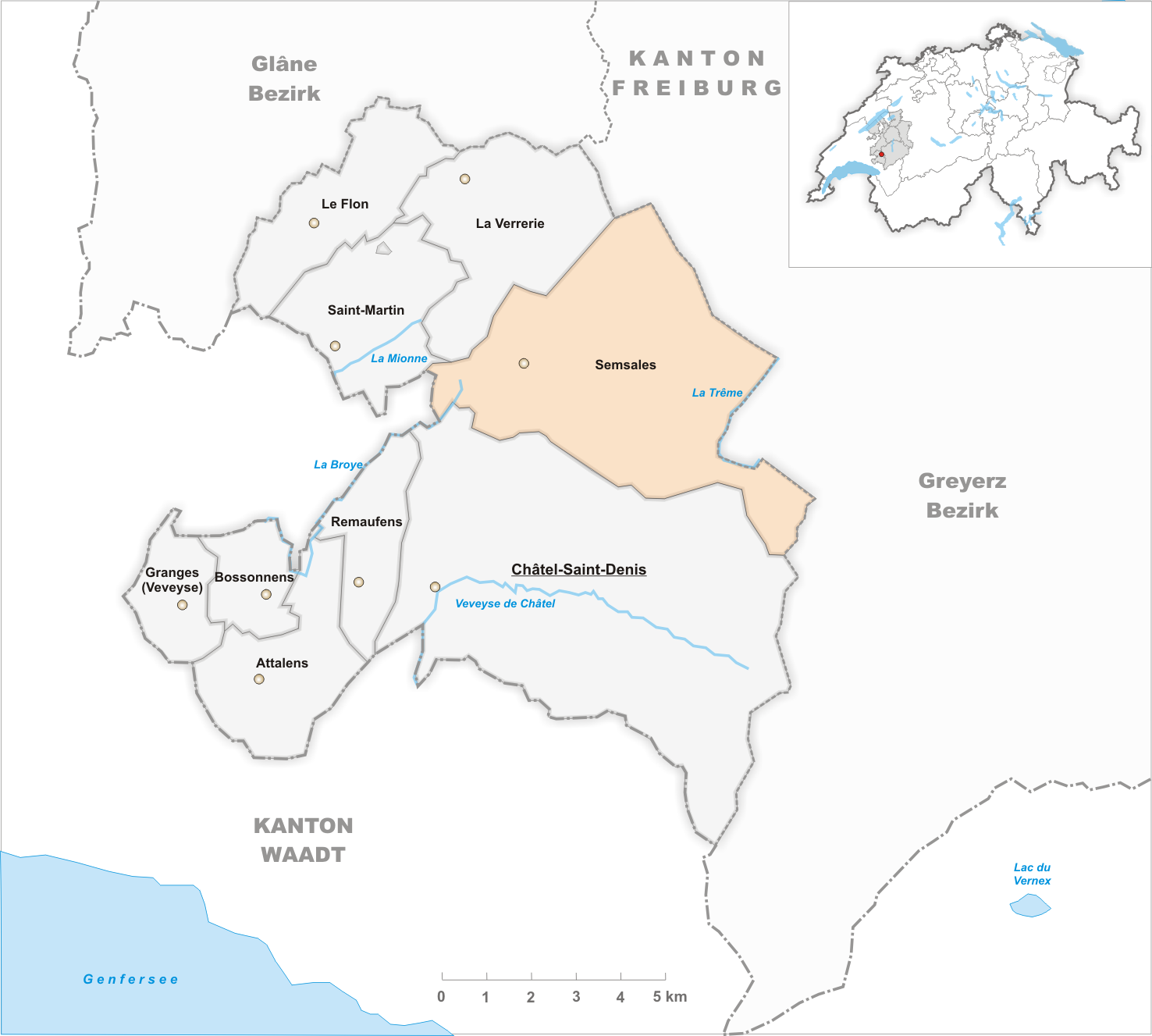 Municipality Semsales